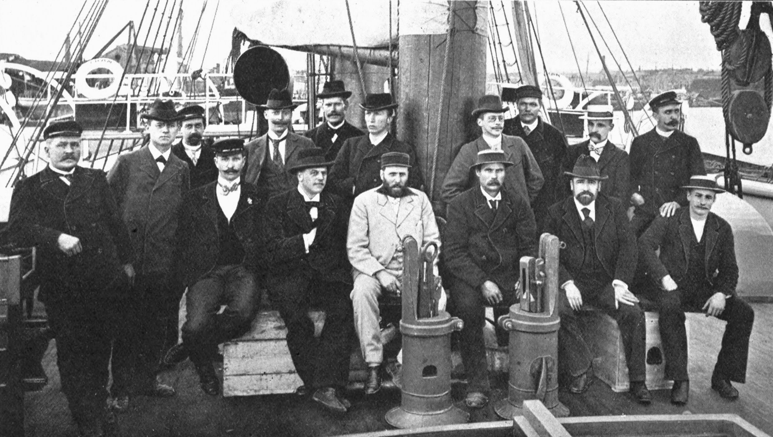 Norwegian Arctic Expedition (1898-1902) led by Otto Sverdrup Standing (l.t.r): Lindström, Skate, Olsen, Stolz, Nedtvedt, Fosheym, Simmons, Hendrix, Braskerud, Svendsen. Sitting: ai, Isachsen, Baumann, Sverdrup, Raanes, Bai, Hassel